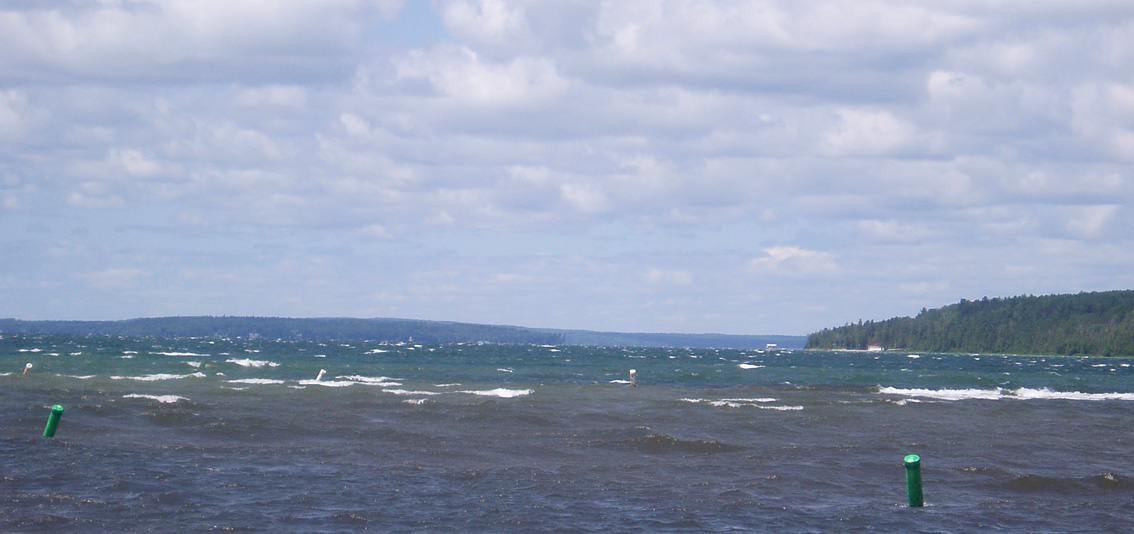 Depicted place: Burt Lake